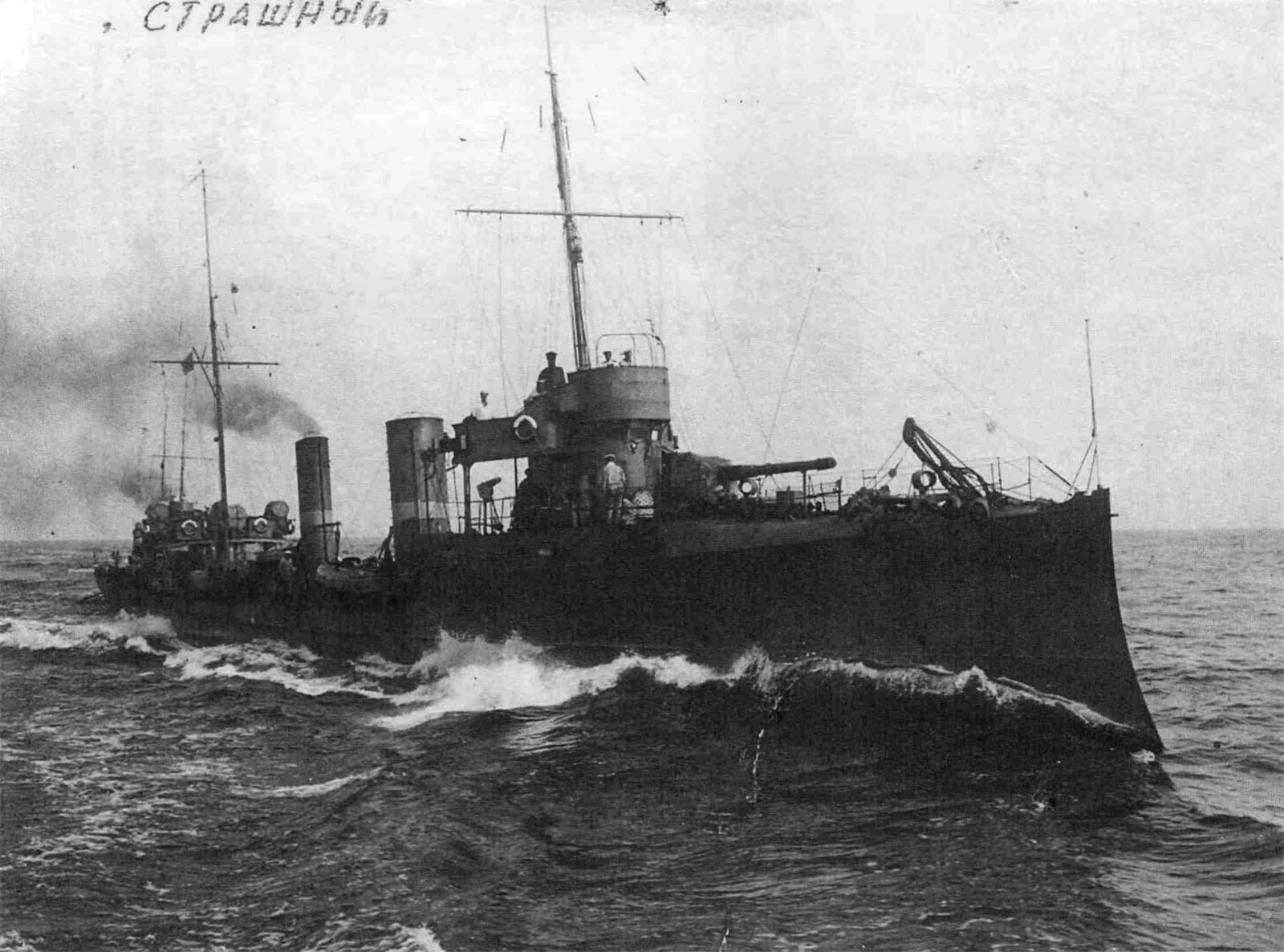 Imperial Russian destroyer Strashnyy.